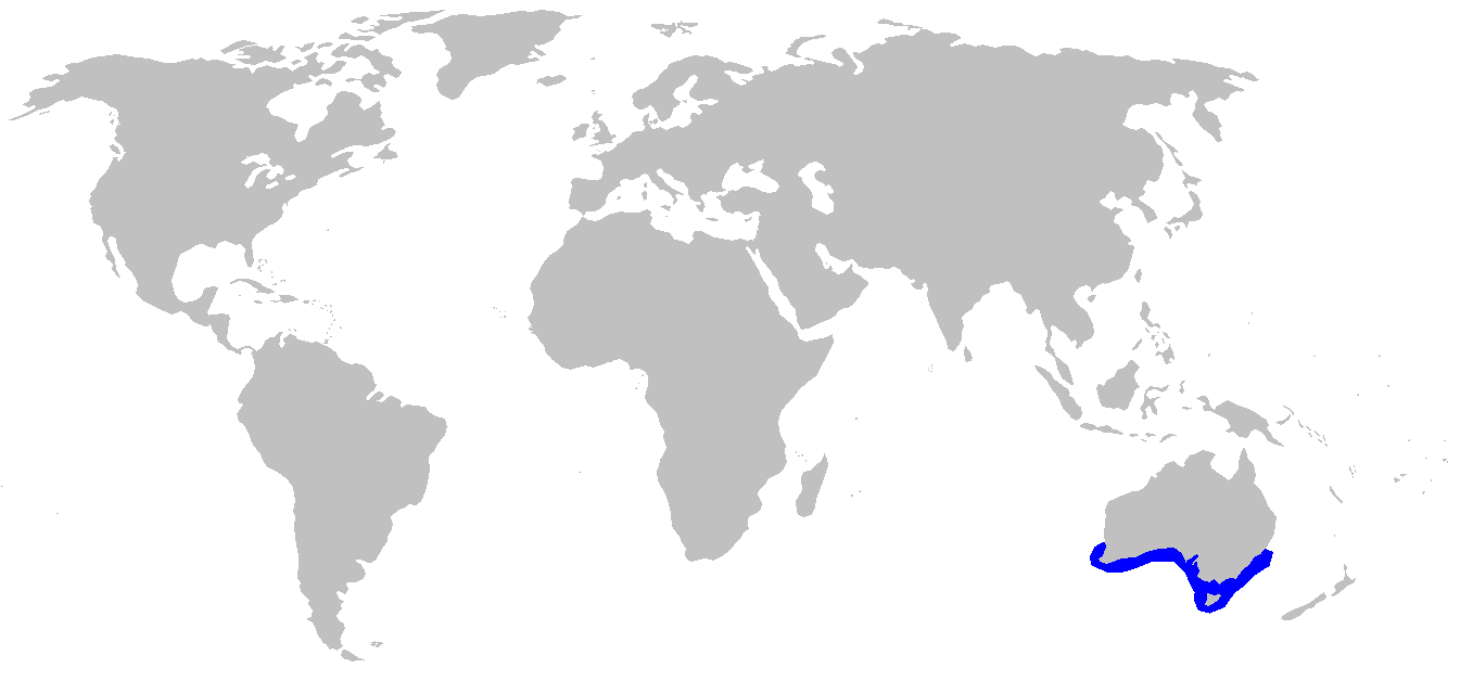 Distribution map for Squatina australis